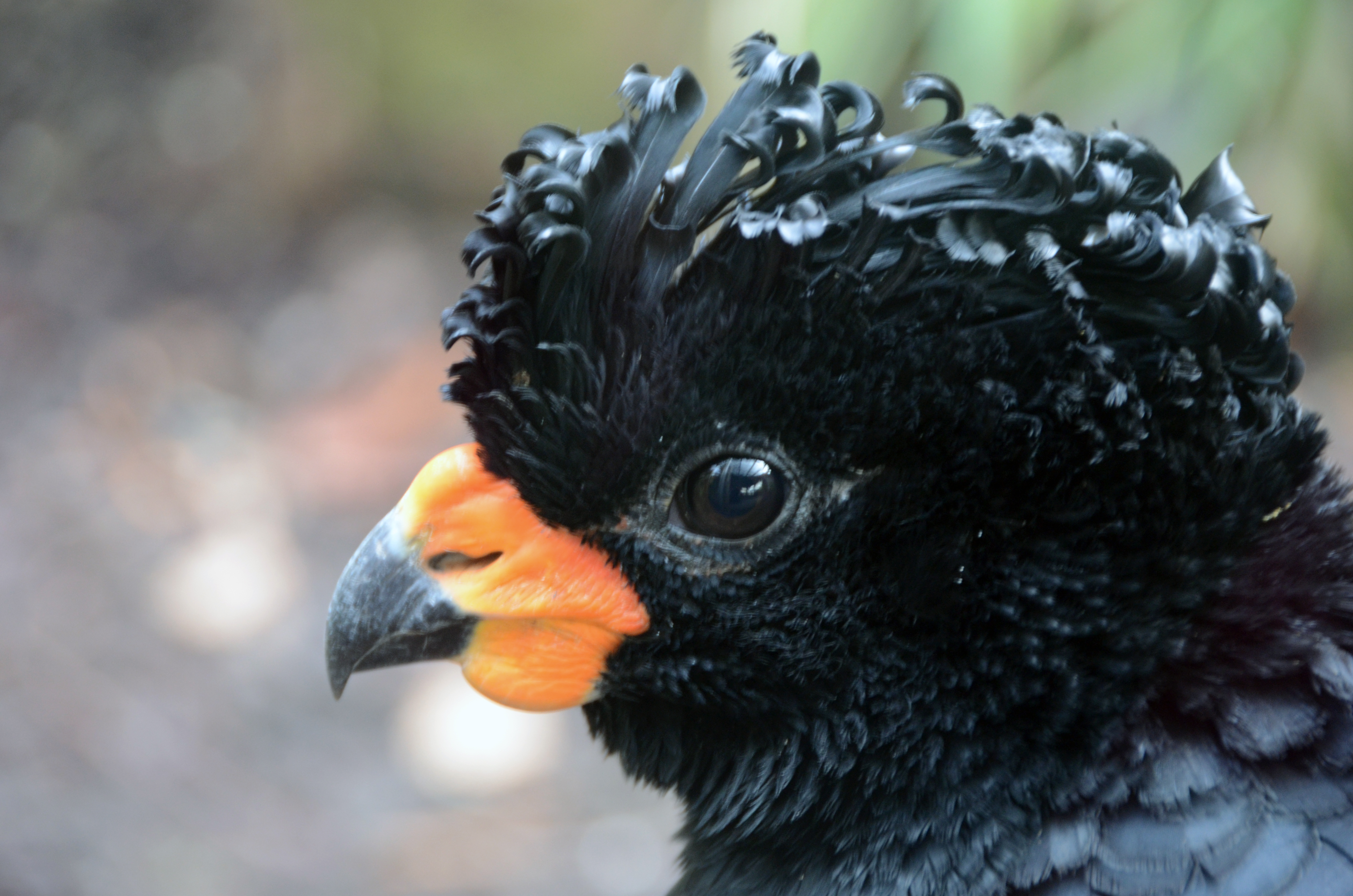 A male Red-knobbed Curassow at Chester Zoo, England.